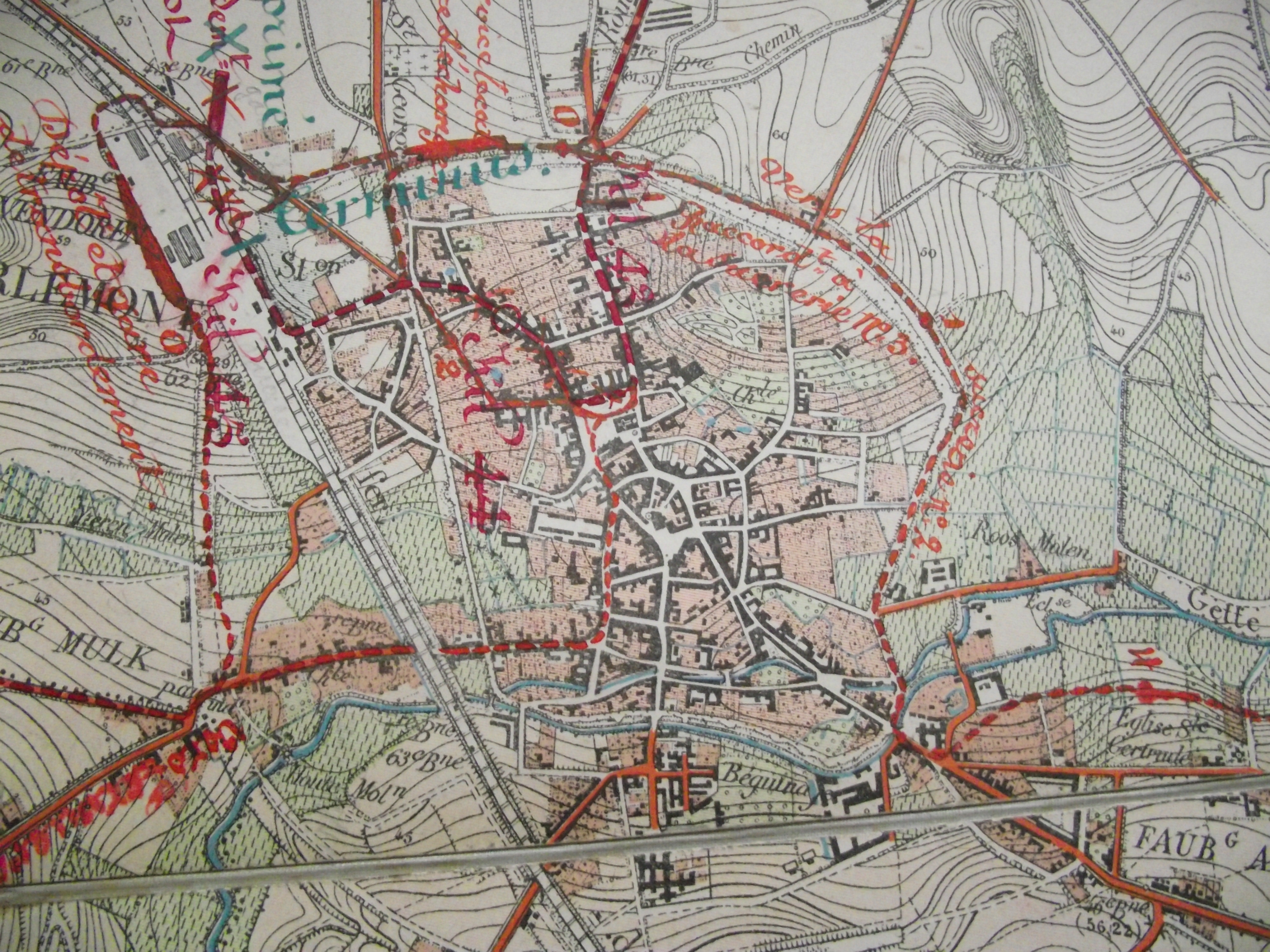 Picture taken of the original drawings for the vicinal kapital 72 project (Haacht Tienen). This shows the Tienen section. Some sections are crossed out and not build.